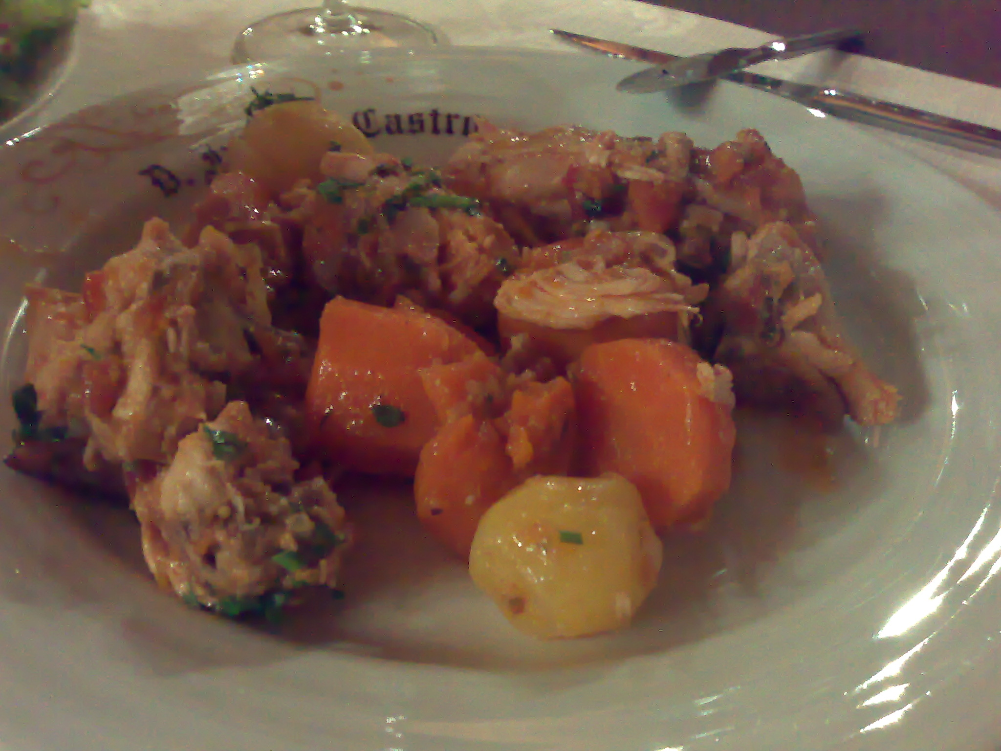 Frango na púcara, a portuguese dish from Alcobaça.